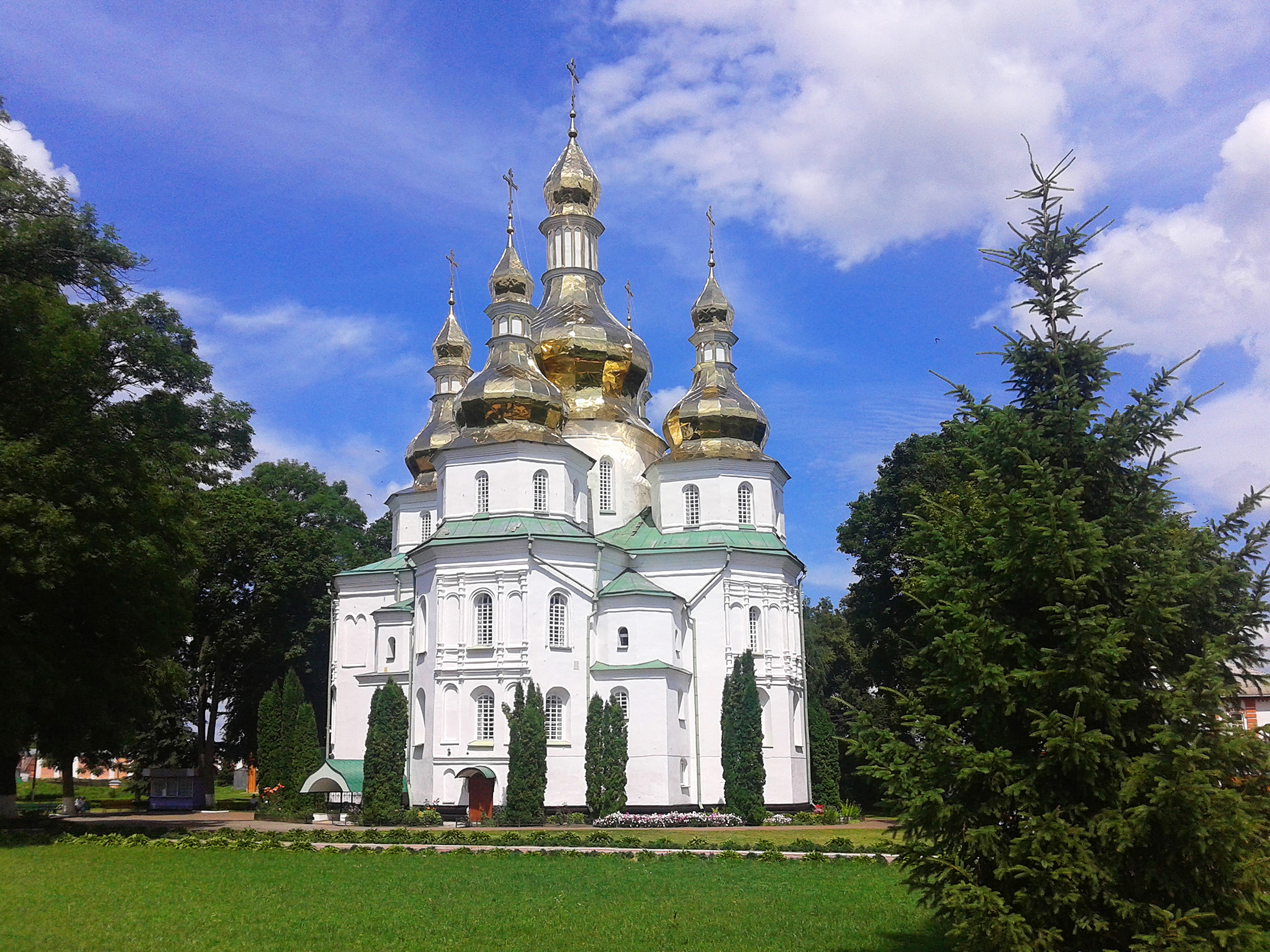 Hustynia Holy Trinity Monastery. Holy Trinity Cathedral